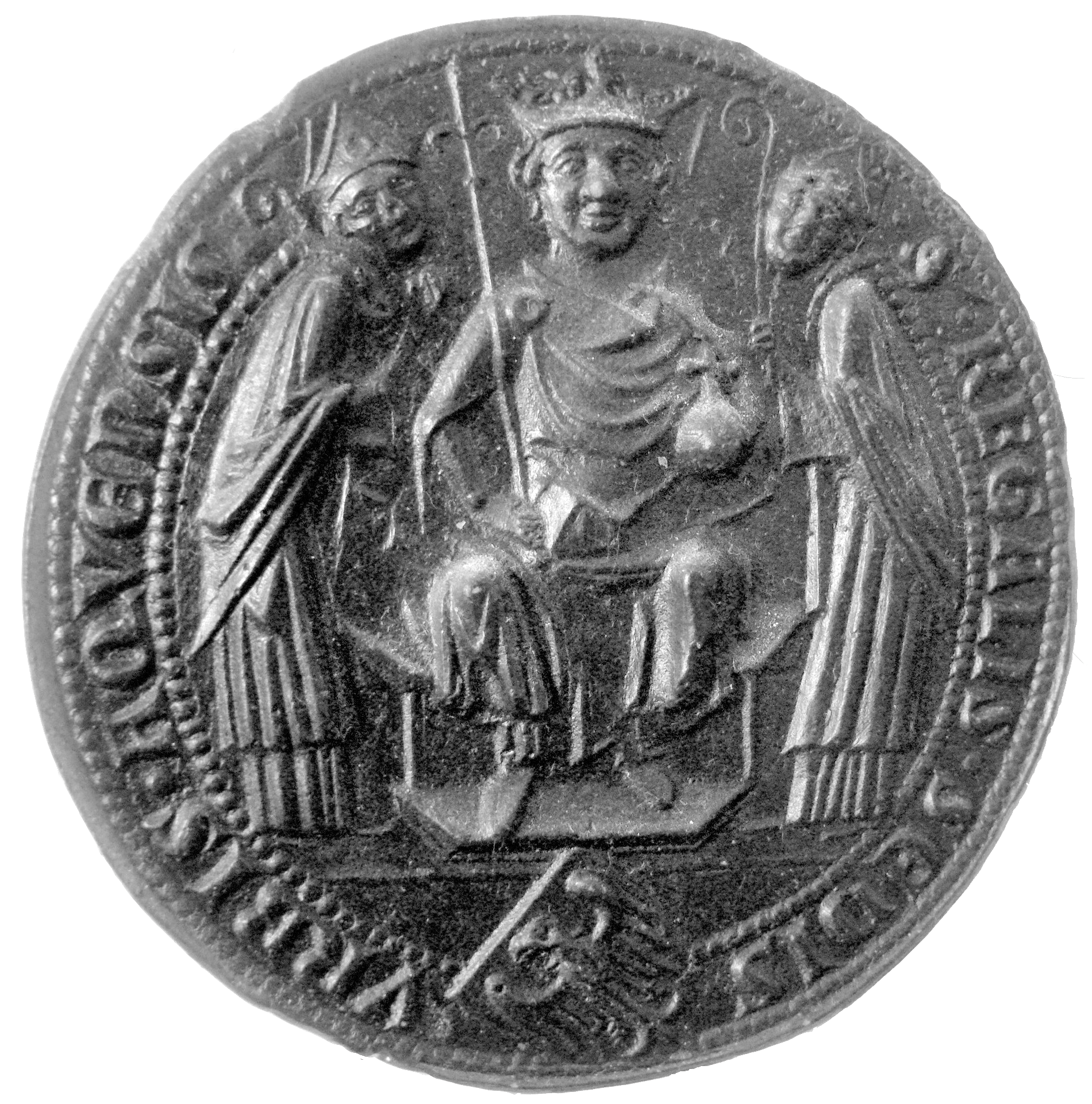 Royal seal of the city of Aachen as of 1327